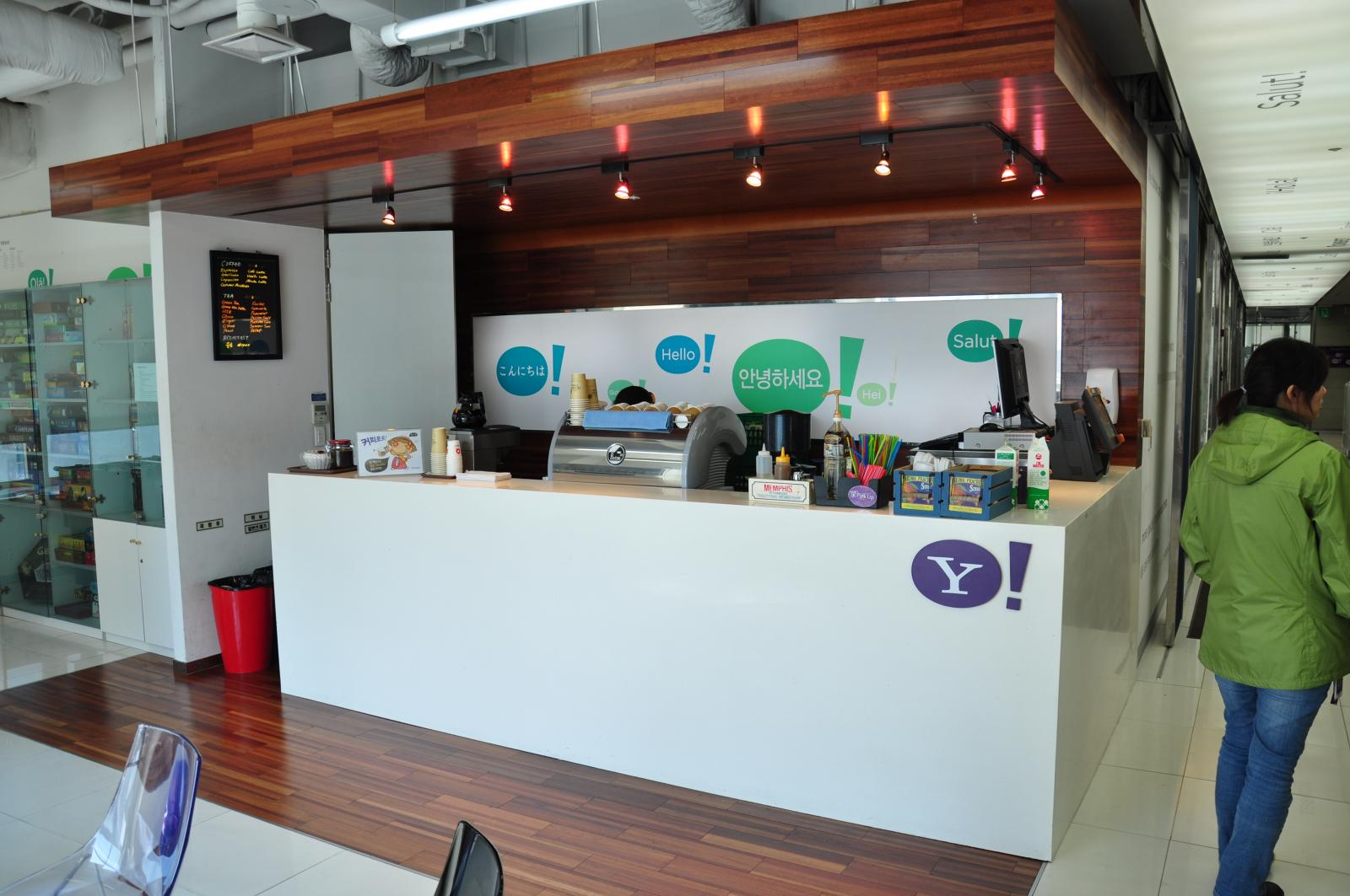 The Cafeteria of Yahoo! Korea